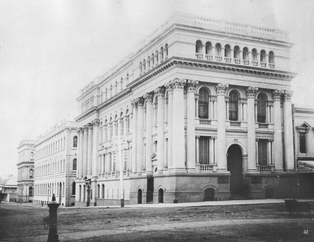 London Chartered Bank, Brisbane, ca. 1889. This building was erected between 1887-1889 and was designed by G.M.H. Addison. It was situated on the corner of Queen and Creek Streets. It was later the E.S. & A. (English, Scottish & Australian) Bank and finally the ANZ Bank. The building was demolished in 1976. (Description supplied with photograph.). [Correction - description should say "was designed by Brisbane-based architect G.H.M. (George Henry Male) Addison"]